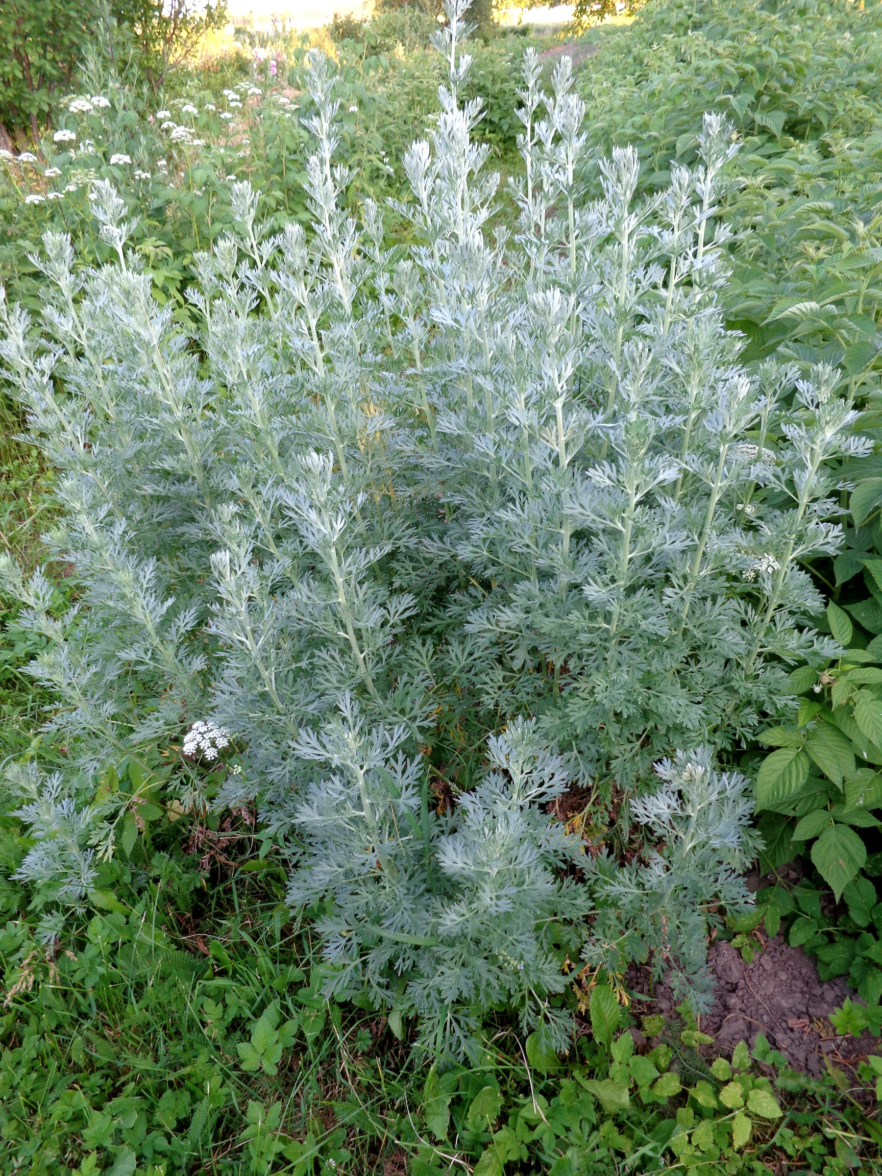 Artemisia absinthium. Found in Bērzi village near Bauska city, Latvia